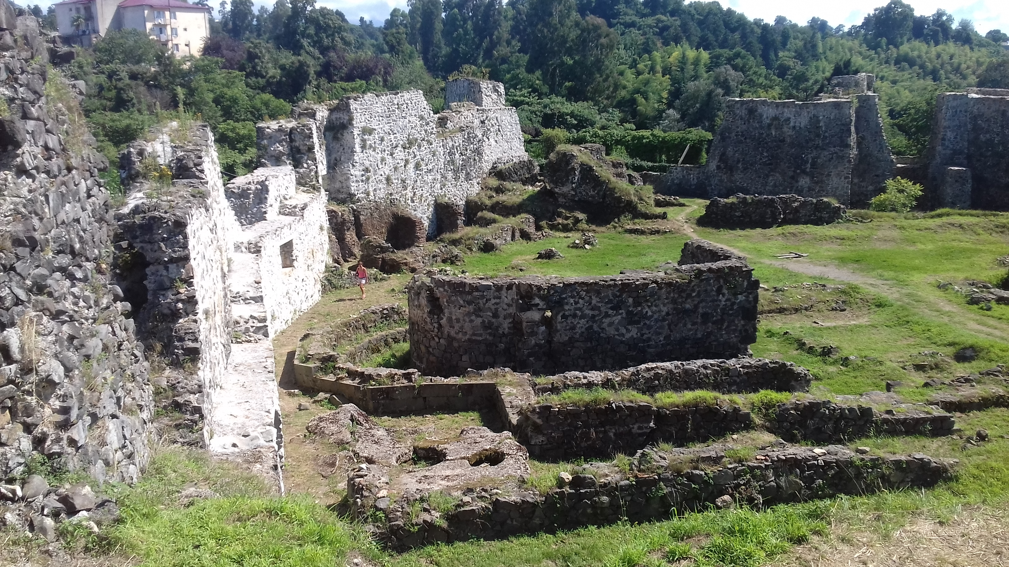 Ruins of an early medieval church and walls. Petra Open Air Museum, Tsikhisdziri, Georgia